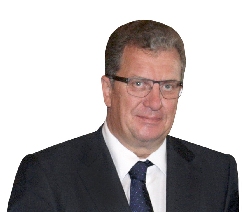 Deputy Prime Minister Sergei Prikhodko, Government of the Russian Federation (official photo).